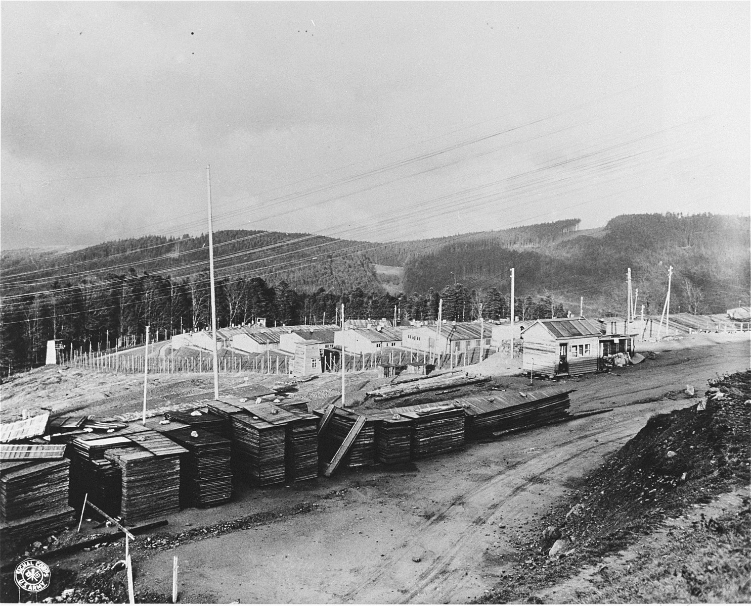 see title